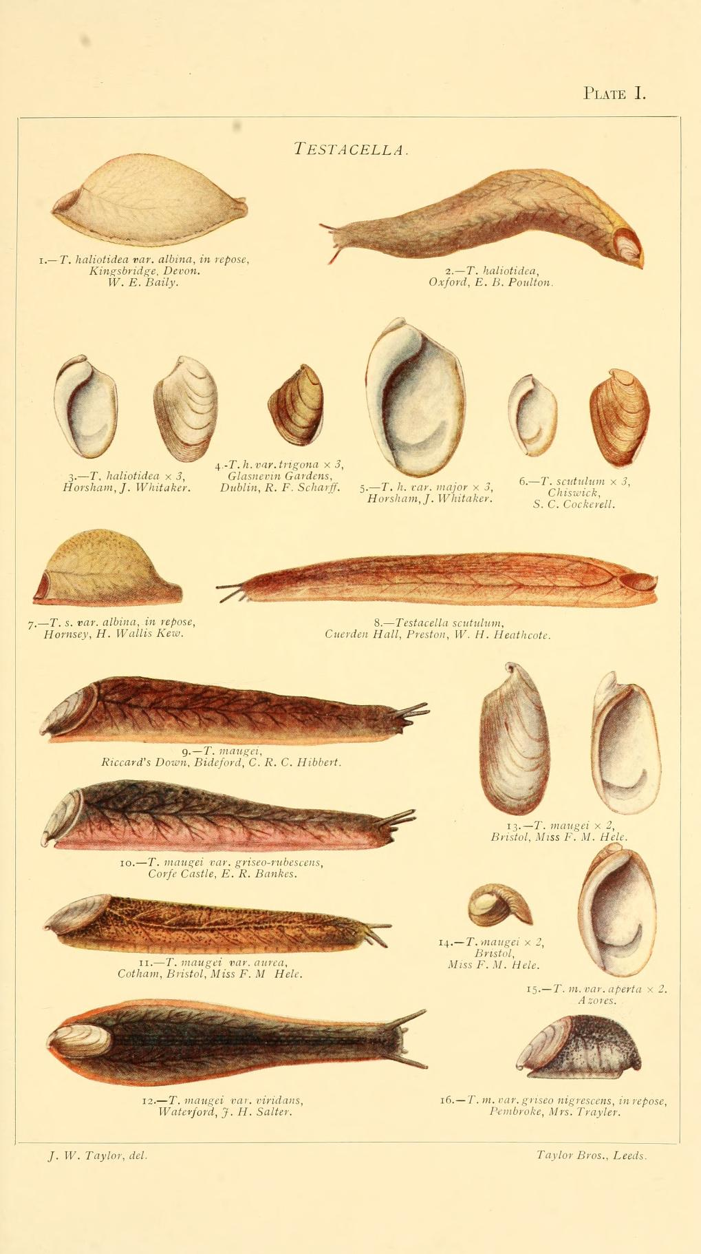 John W. Taylor Monograph of the land & freshwater Mollusca of the British Isles Plate1